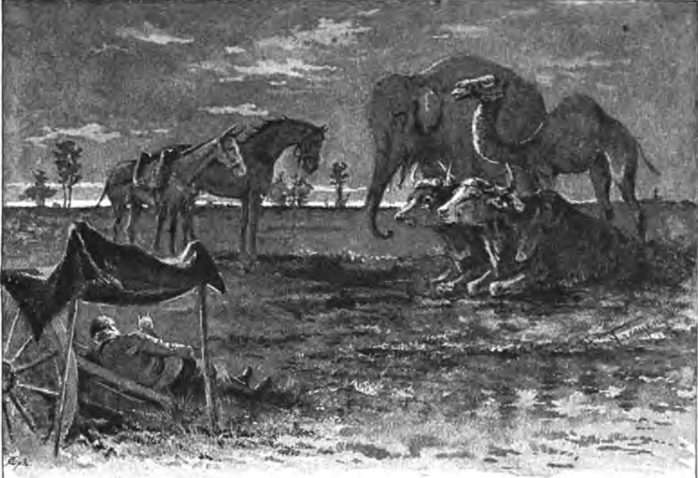 "'Anybody can be forgiven for being scared in the night,' said the Troop-Horse."